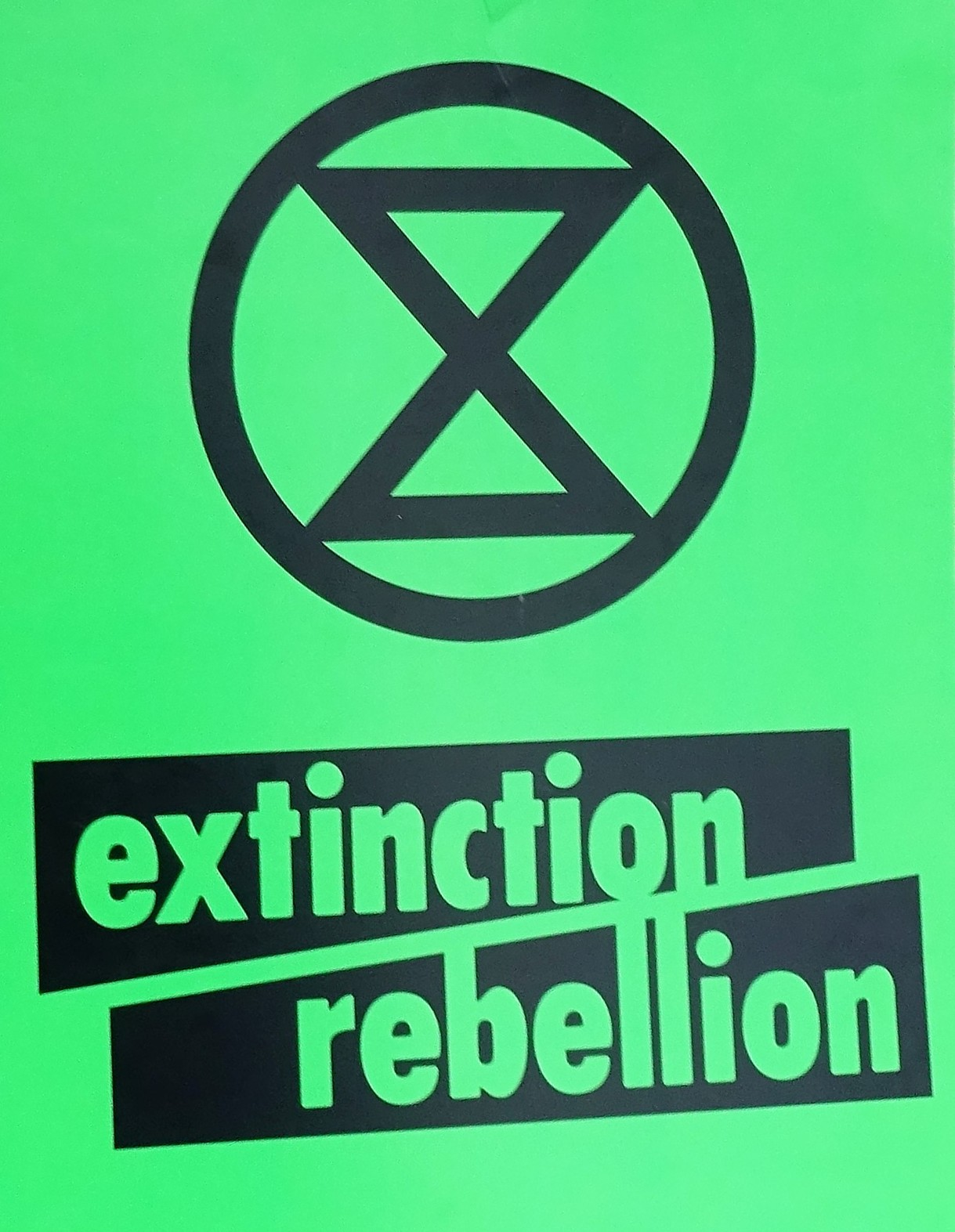 Extinction Rebellion, green placard.